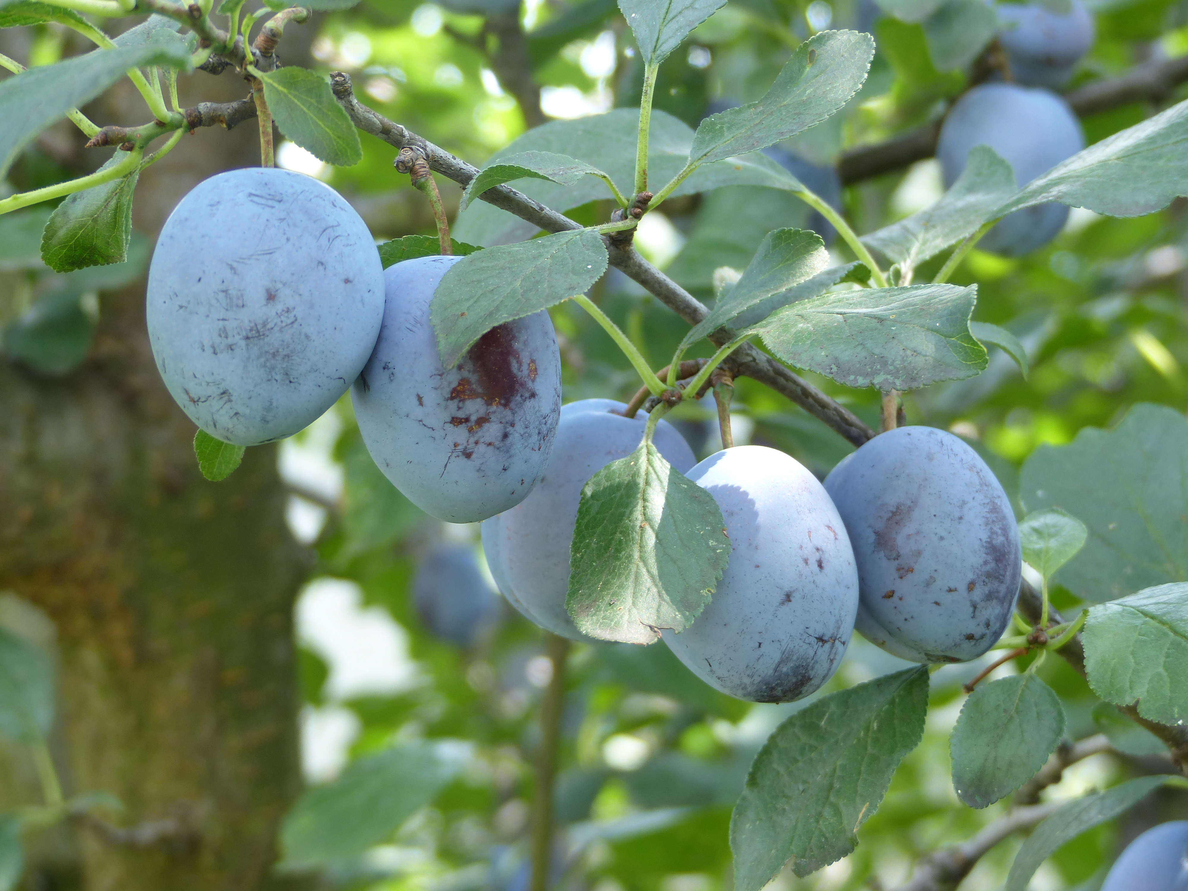 A felvétel 2016. július 23-án készült a Fő utcában levő kertben (a Micheller étteremhez közel), Szilsárkányban.